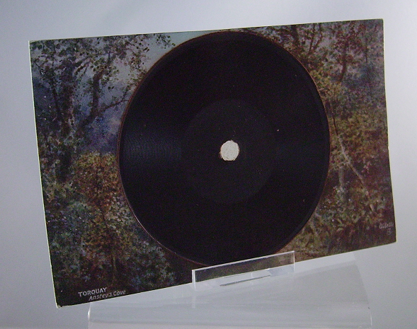 A cardboard gramophone postcard